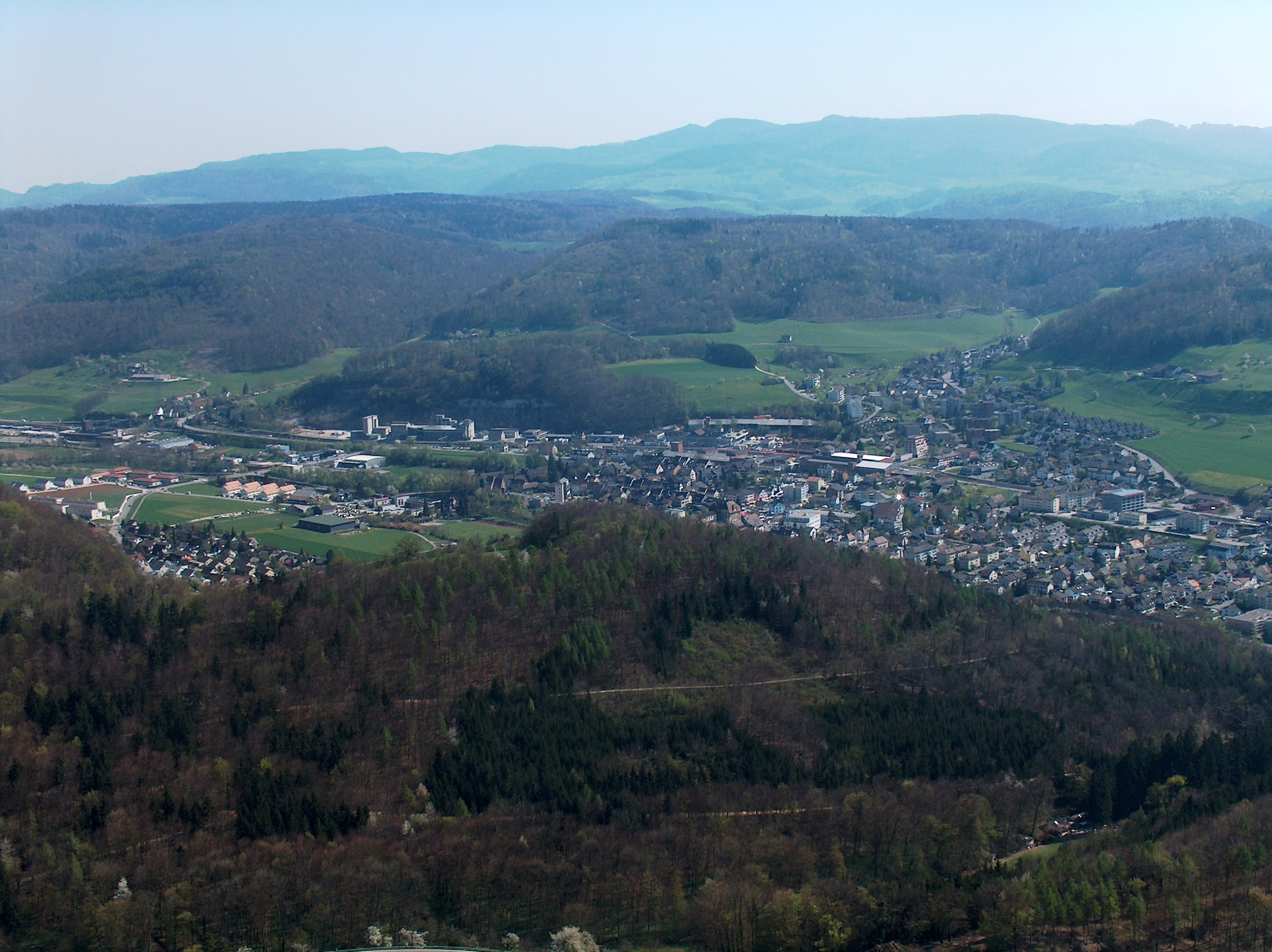 View over Lausen from lookout at the top of Schleifenberg, Liestal